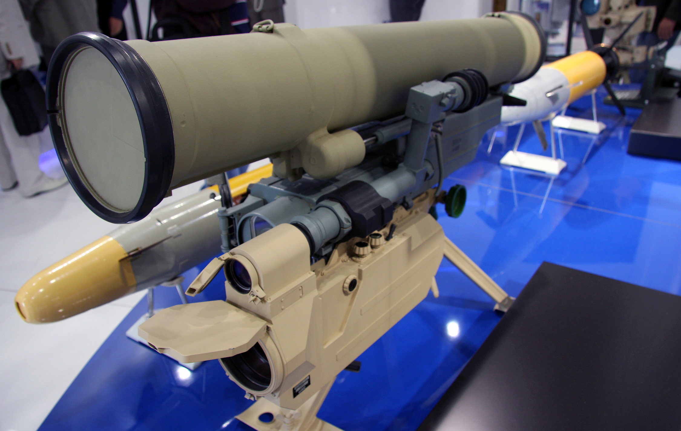 Anti-tank guided missile system Metis-M1